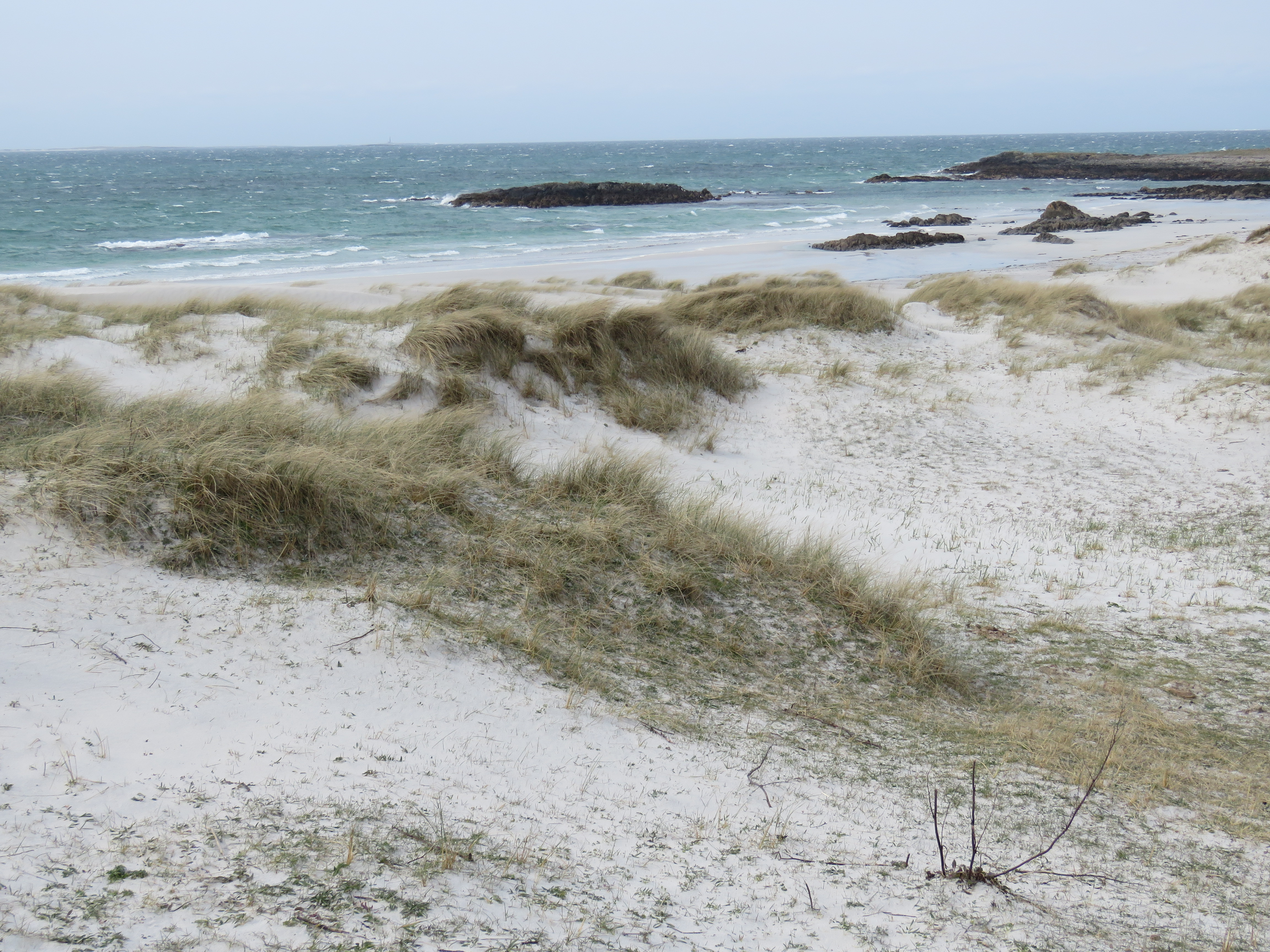 RSPB Balranald, North Uist, Outer Hebrides